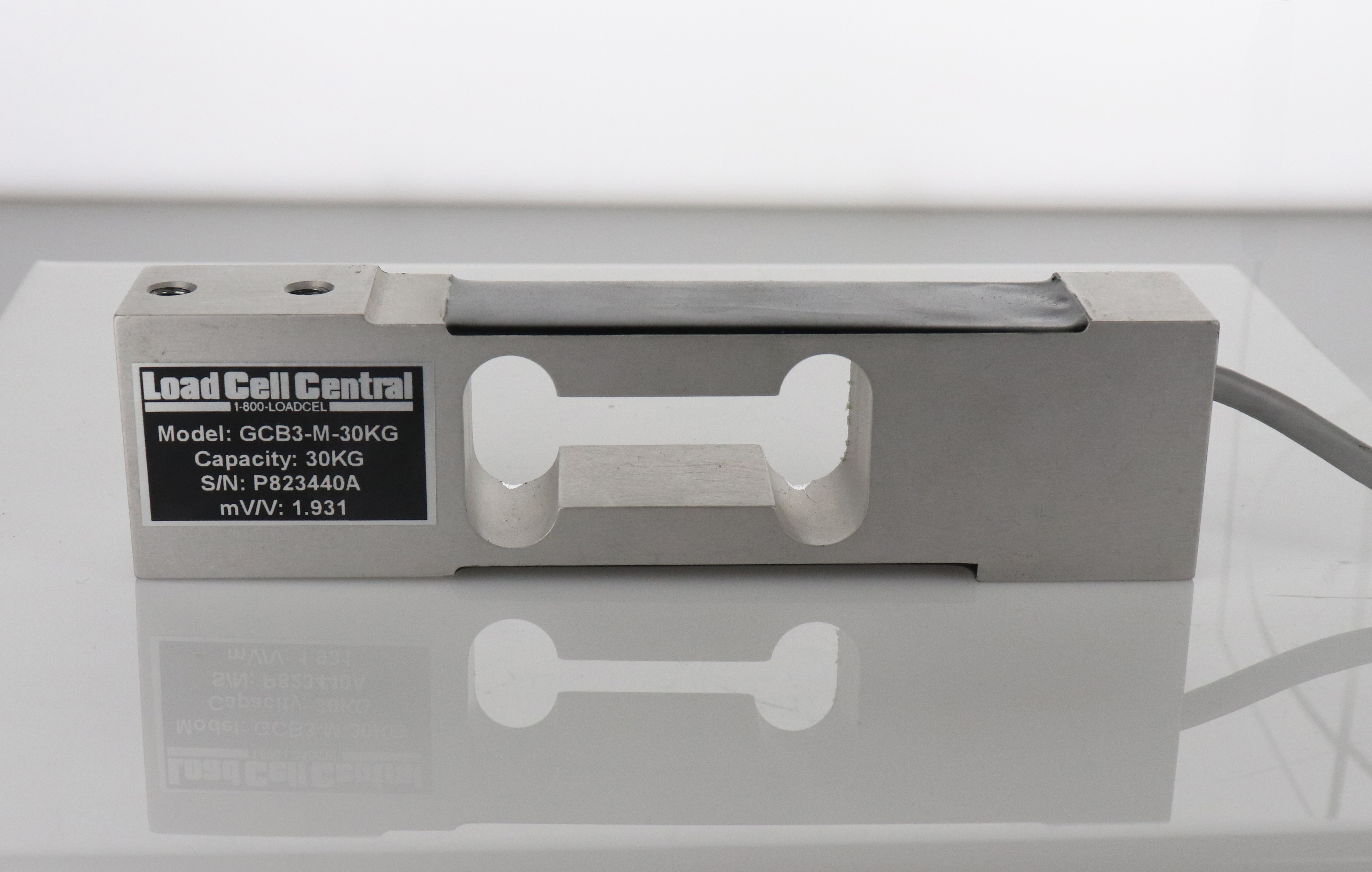 GCB3 single point load cell